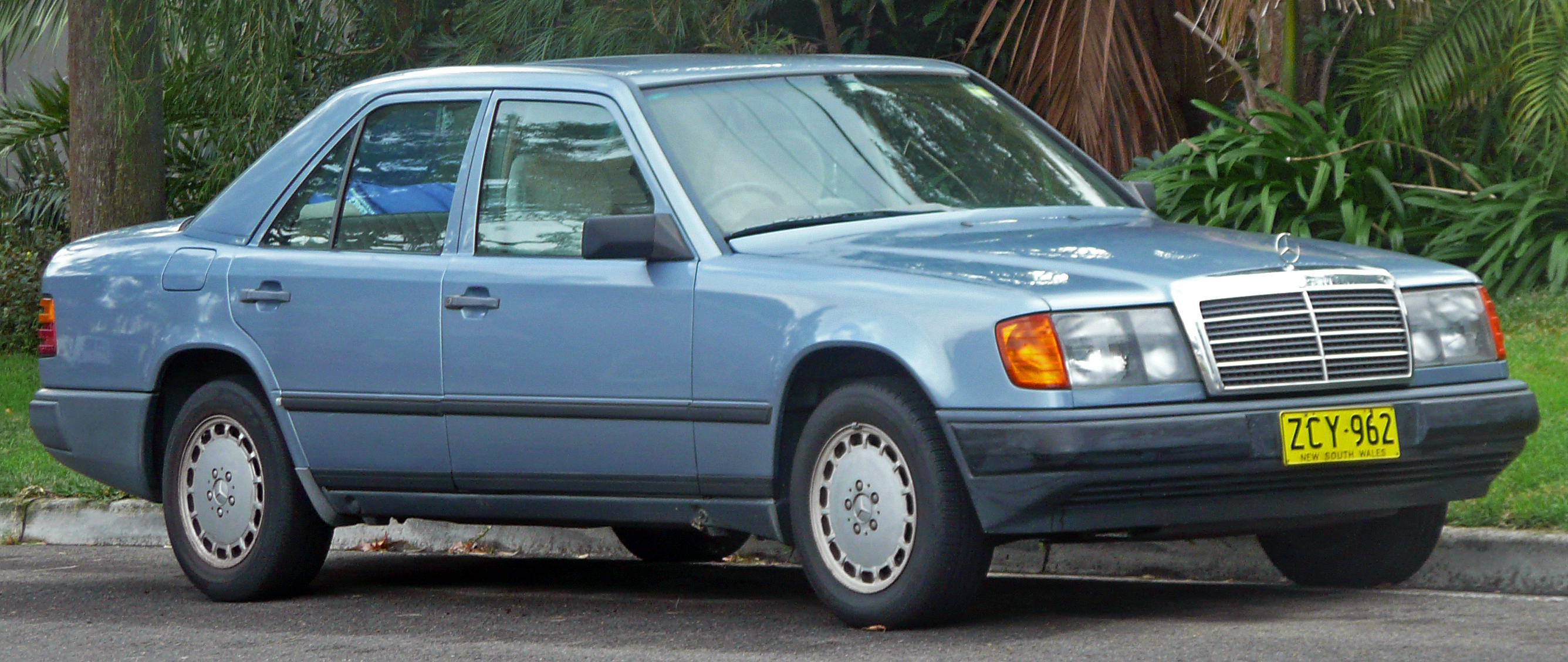 1986 Mercedes-Benz 300 E (W124) sedan. Photographed in Cronulla, New South Wales, Australia.